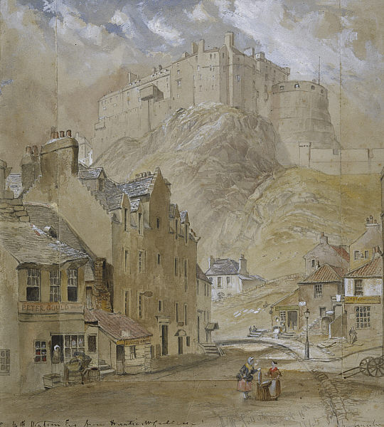 "Edinburgh Castle from the Foot of the Vennel, 1845" Watercolour & pencil on paper, 41.00 x 36.80 cm.